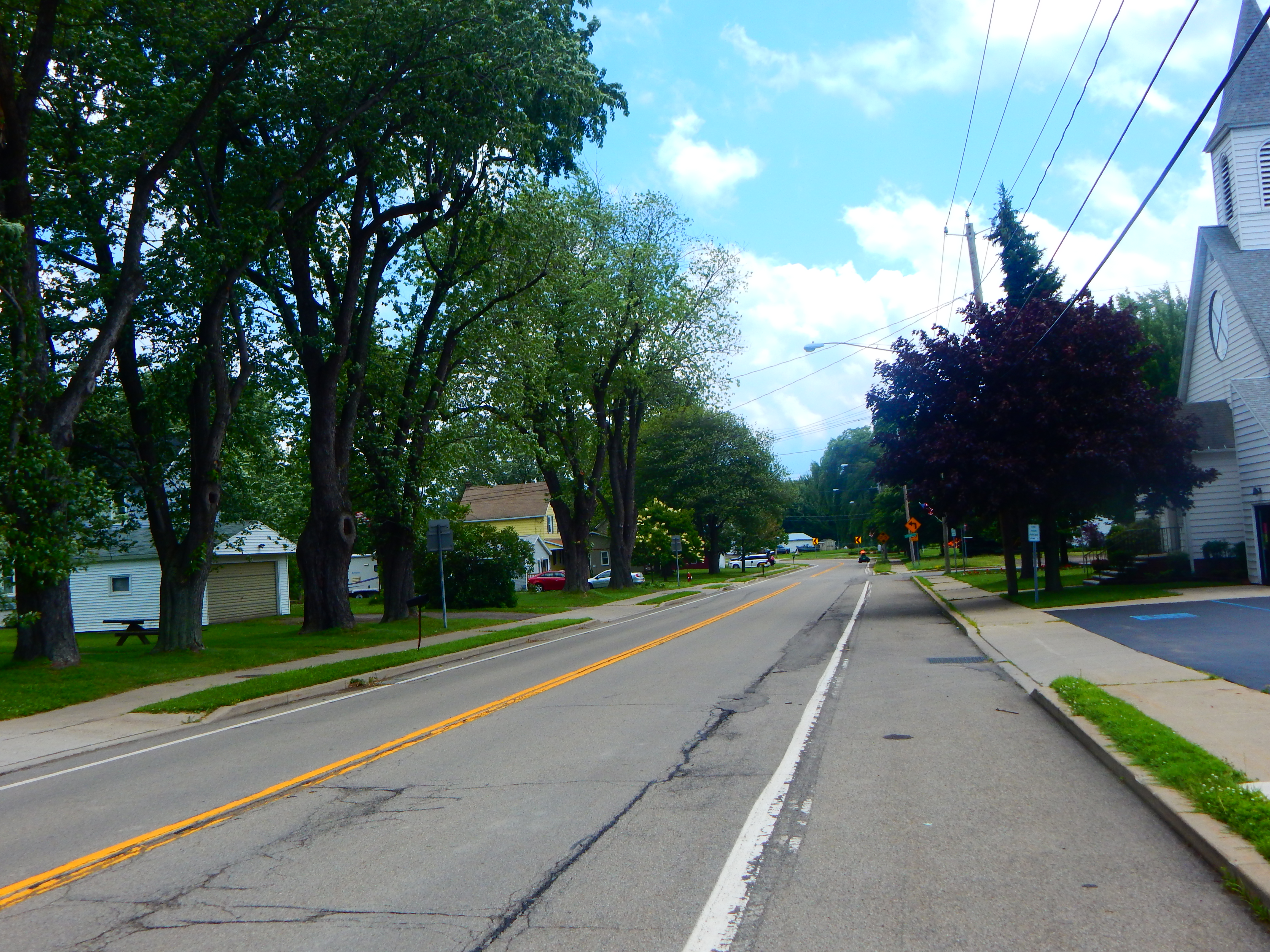 Route 249 heading through the village of Farnham, New York.